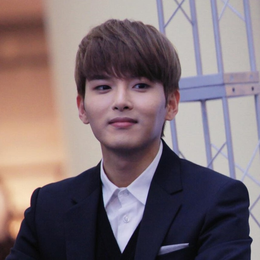 experience korea ryeowook